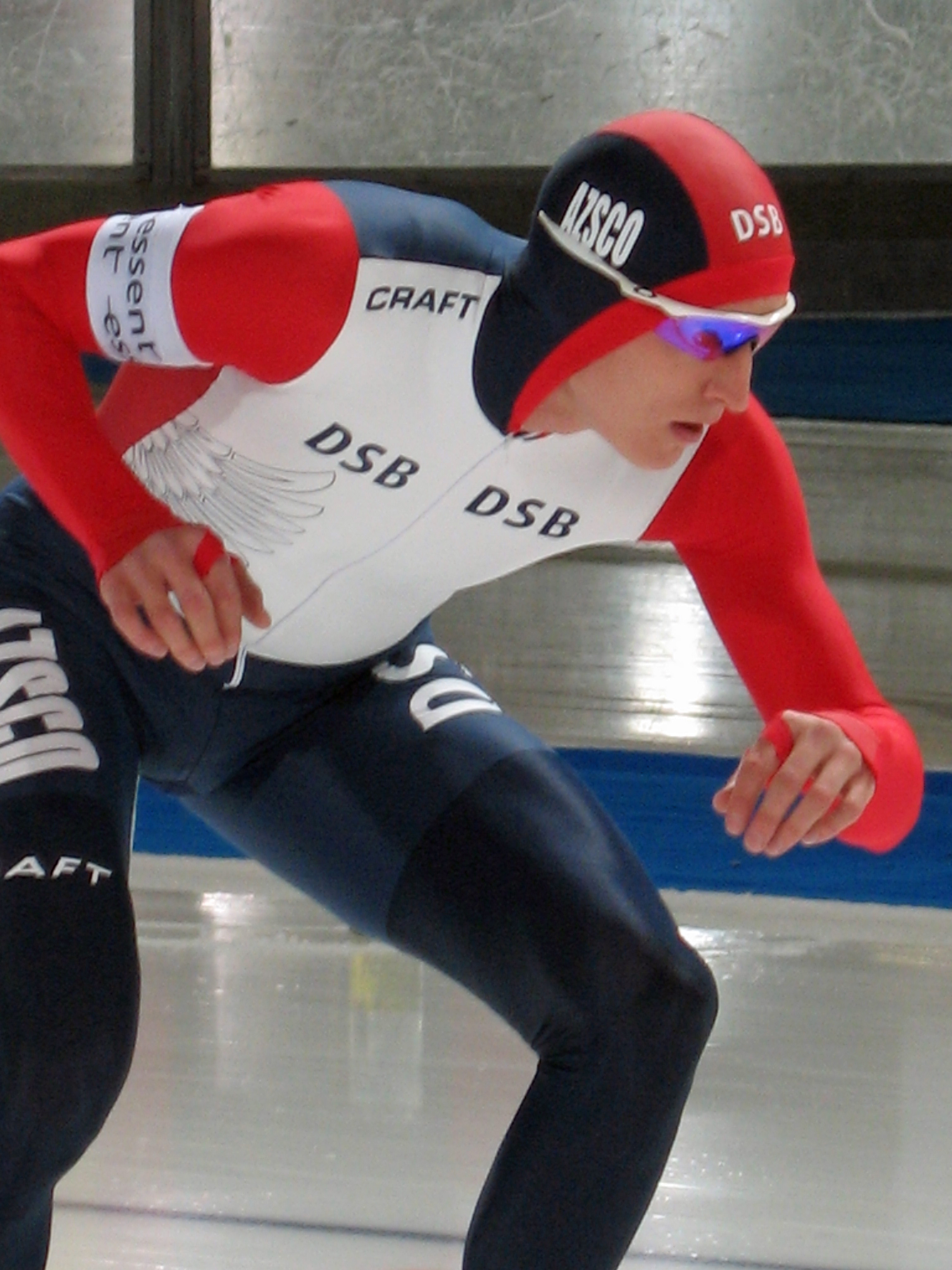 Ivan Skobrev at the start 5k World Cup Berlin november 2008